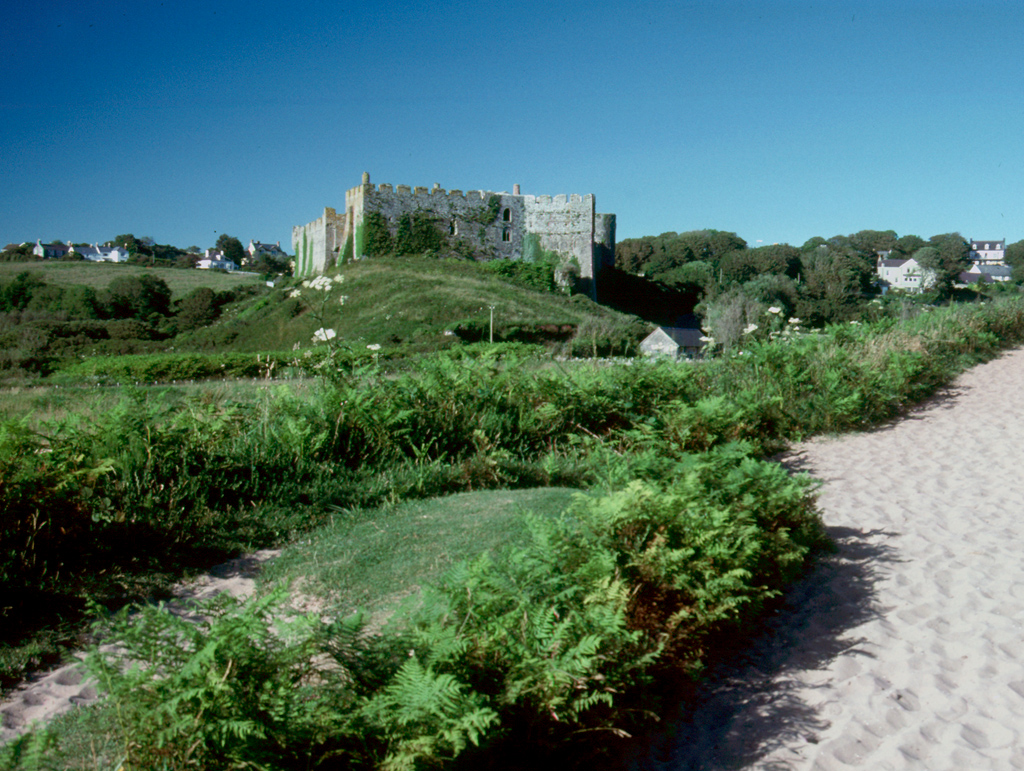 Manorbier Castle is a norman Castle, located near the village of Tenby in South Wales/GB